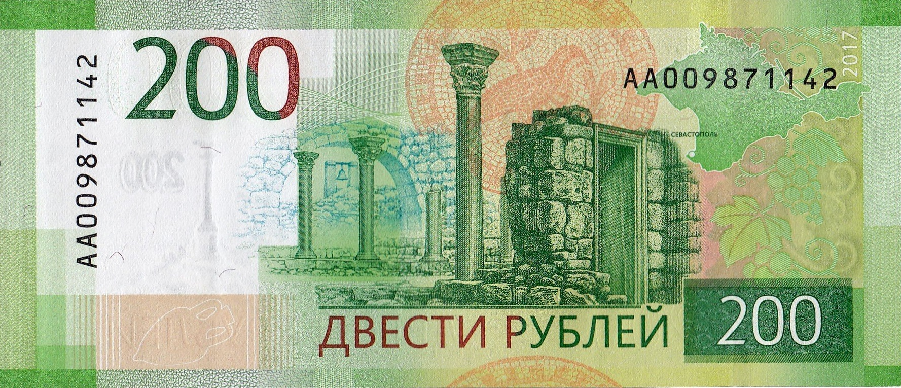 Russia 2017 banknote 200 rubles